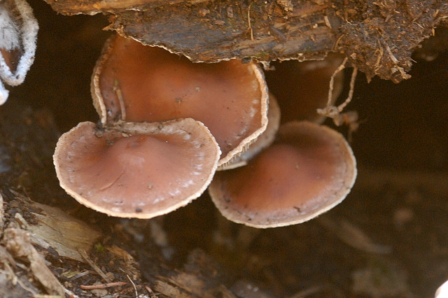 Psathyrella olympiana from Commanster, Belgium. If you think this is a different taxon, please contact James Lindsey.